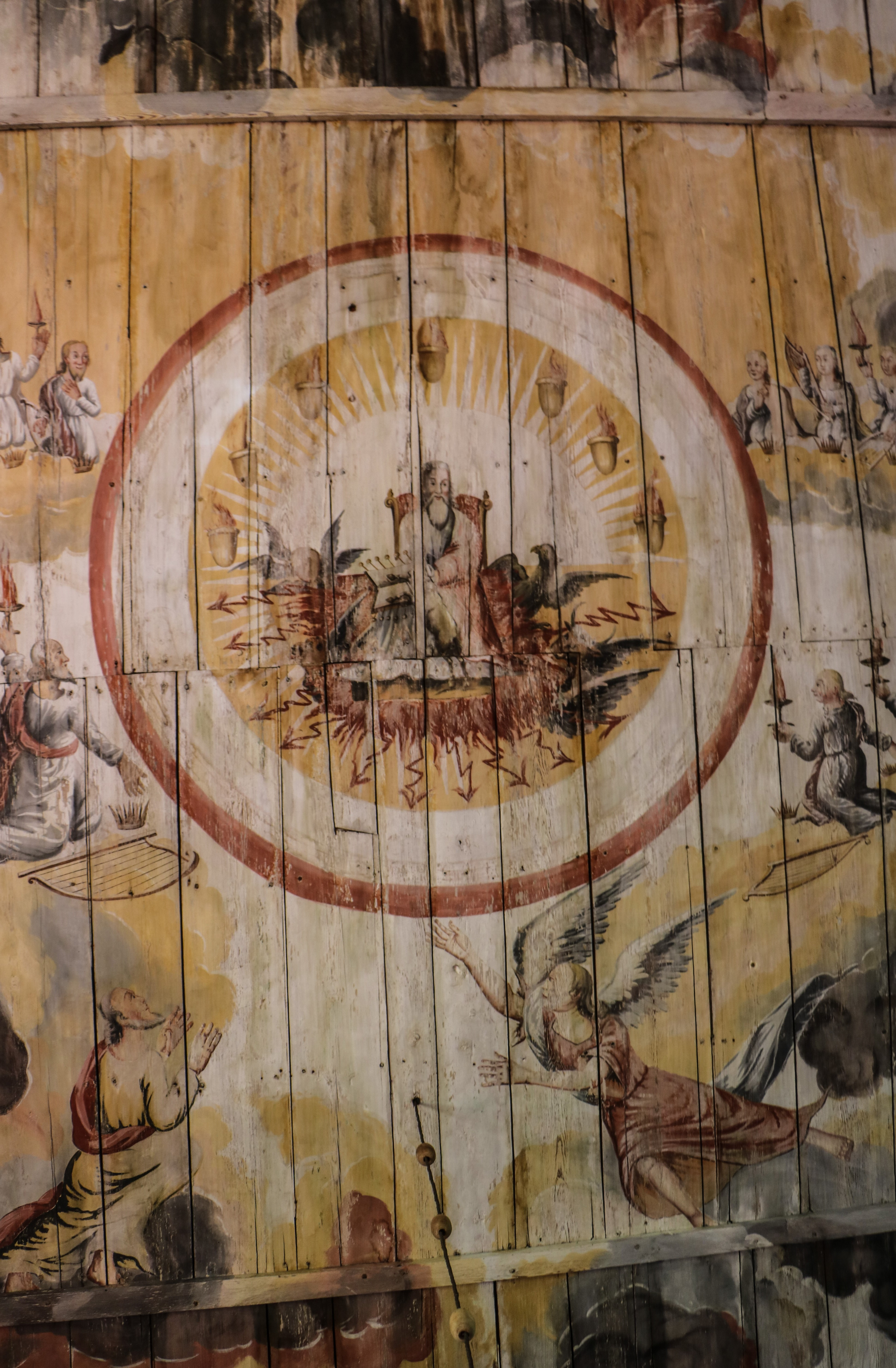 Granhult Church.The Throne of God. Ceiling painting in the nave by J C Zschotscher 1753.